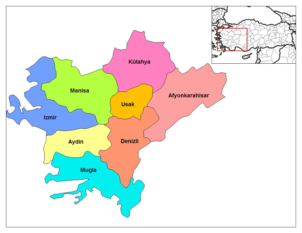 The Aegean Region, Turkey